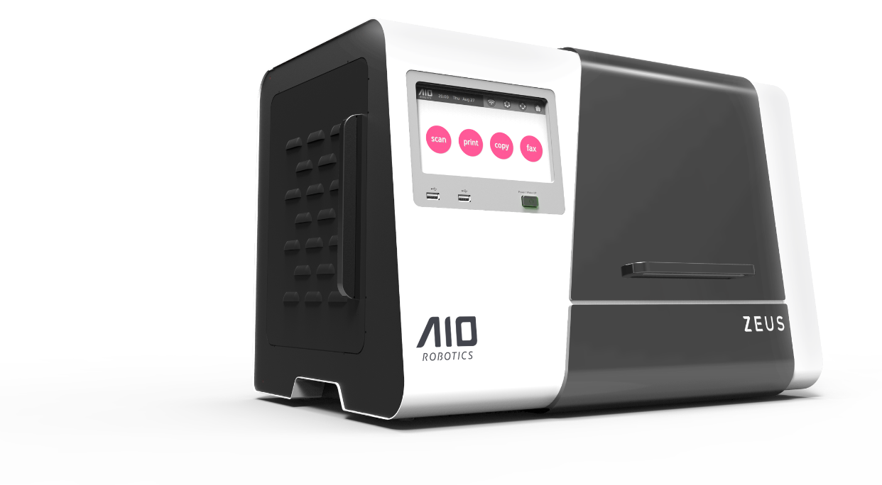 ZEUS is an All-in-one 3D Printer with integrated computer, touchscreen, and 3D scanning functionality